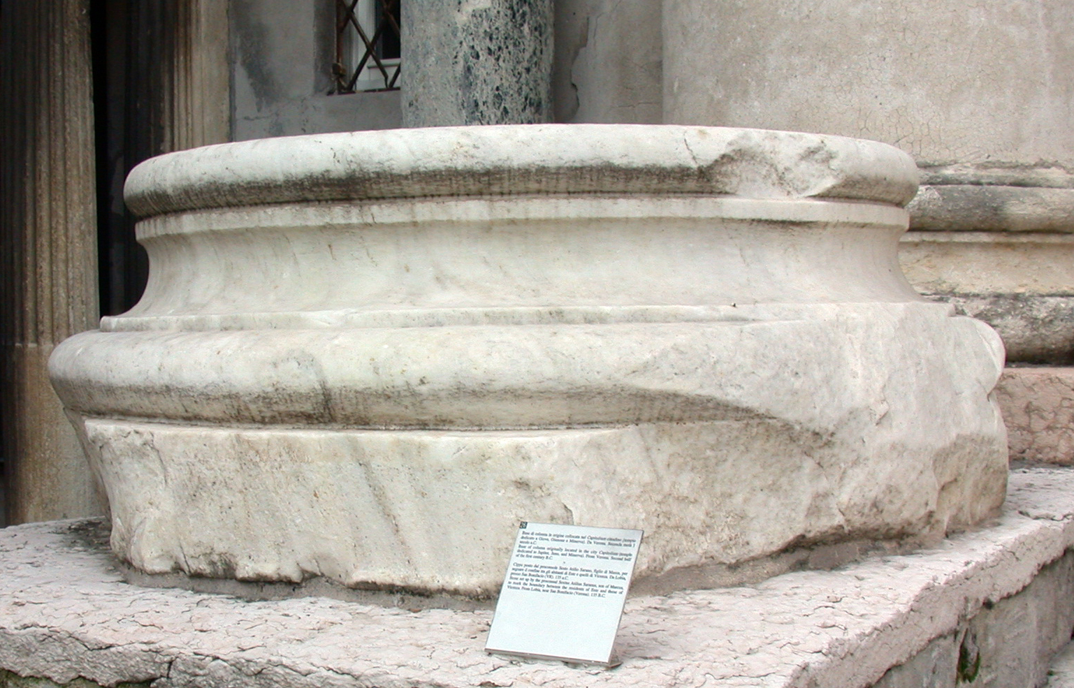 Verona, "Museo Maffeiano", column base of the roman "Capitolium"